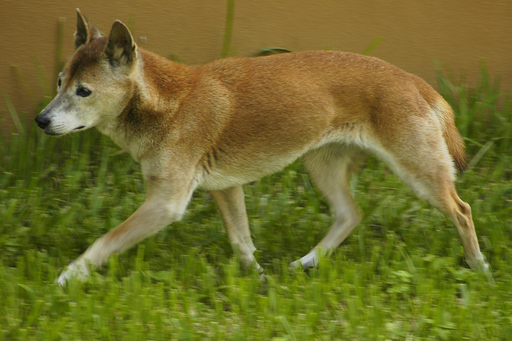 A profile shot of a New Guinea Singing Dog.